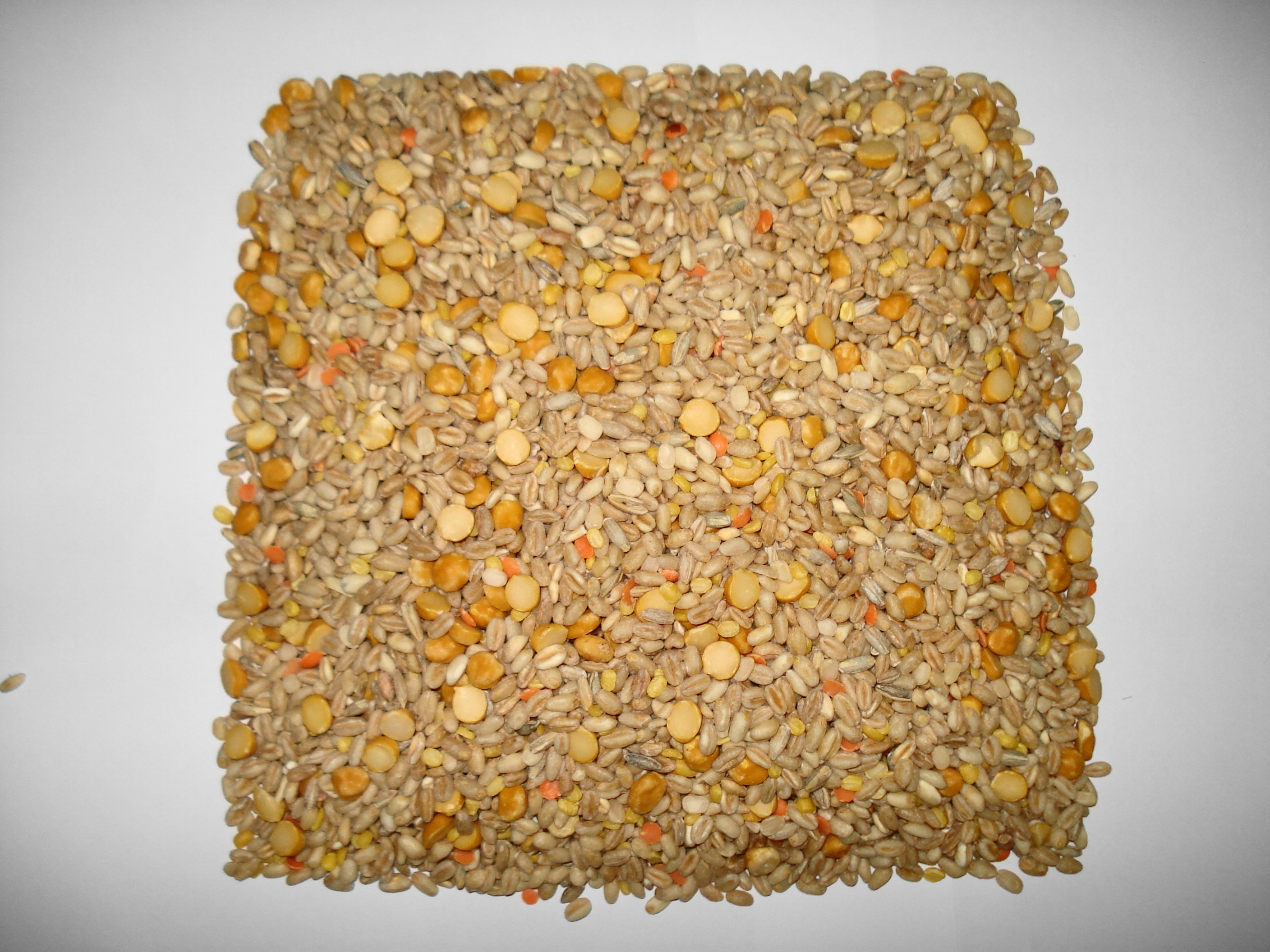 Used in haleem making, Masoor dall, Channa dall, Moong dall, Wheat and Barley